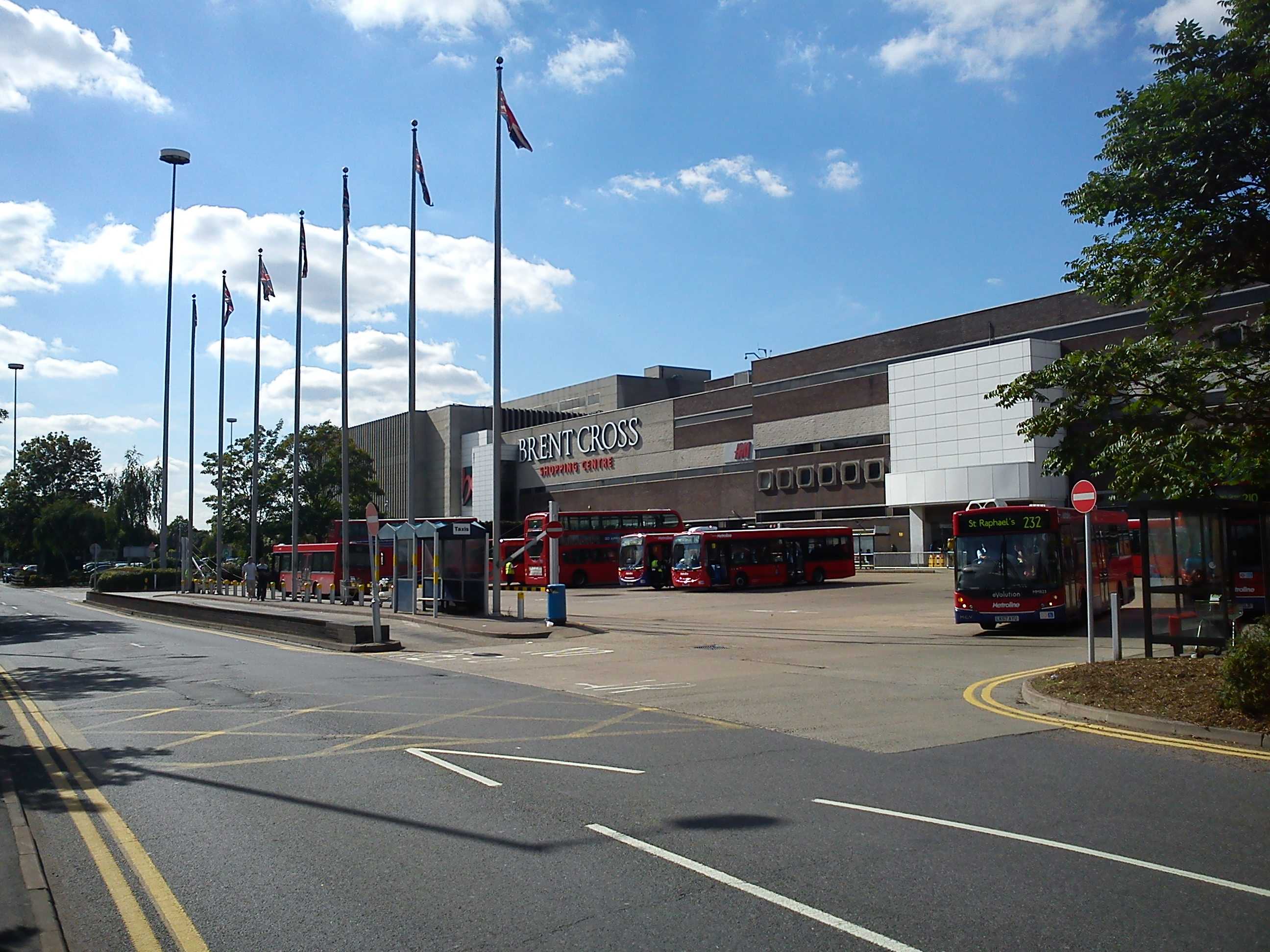 Brent Cross Bus Station 2010